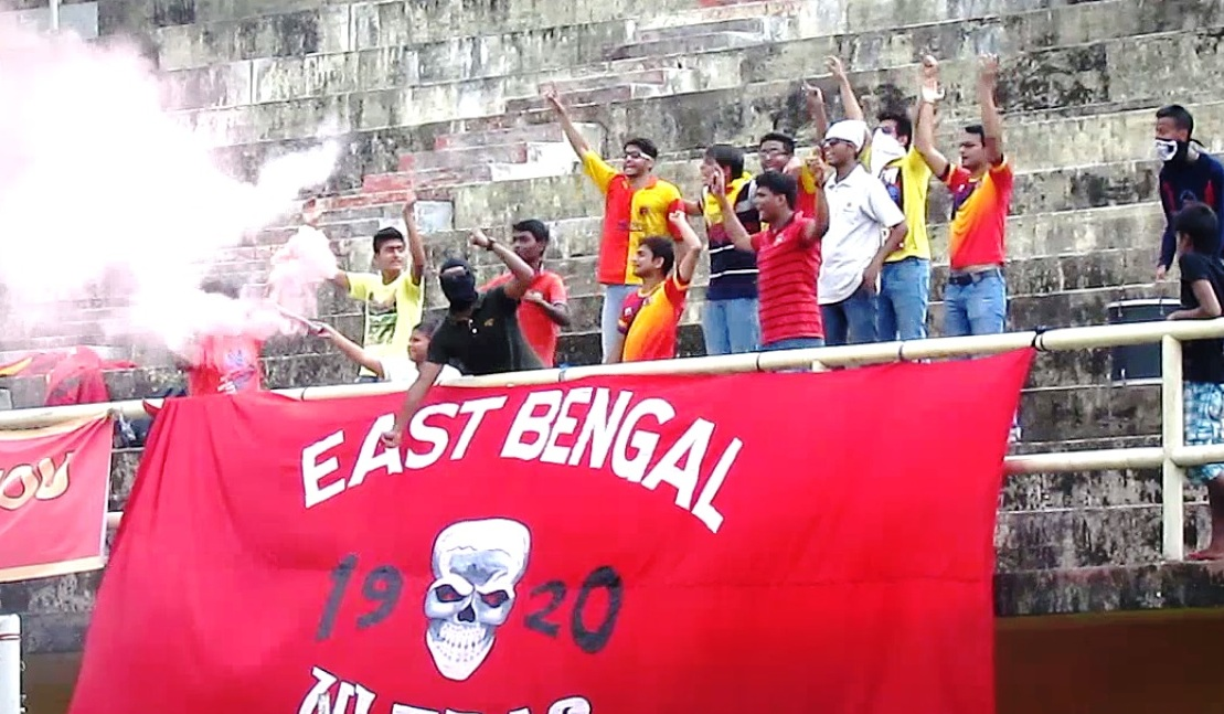 Initial days of East Bengal Ultras